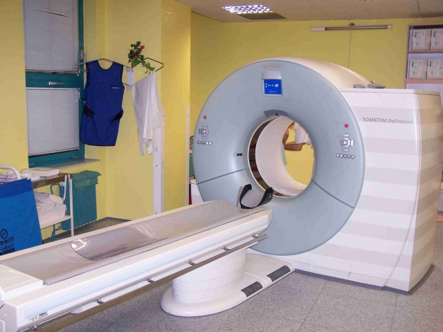 A Siemens Somatom Flash CT scanner